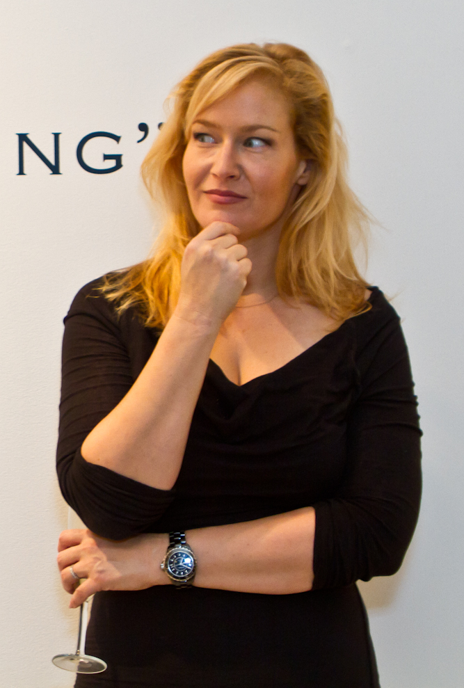 Photographer Jill Greenberg poses with exhibition sign